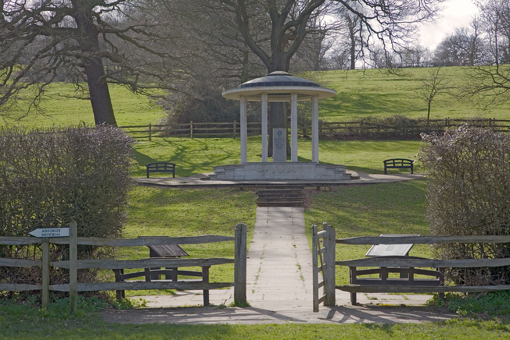 American Bar Association memorial to Magna Carta at Runnymede